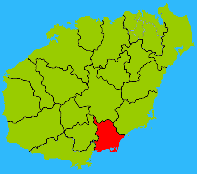 Hainan subdivisions - Lingshui Li Autonomous County